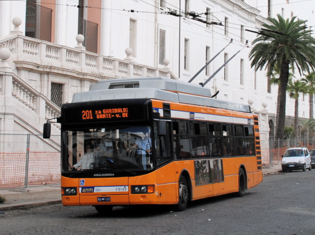 A low-floor trolleybus of the Naples (Napoli) ANM system, at Piazza Carlo III, on route 201. Trolleybus F9149 is one of 87 trolleybuses built for ANM by AnsaldoBreda, model F19, numbered F9079-F9165, between 1999 and about 2002. Their bodies were built by AnsaldoBreda's bus division, BredaMenarinibus.